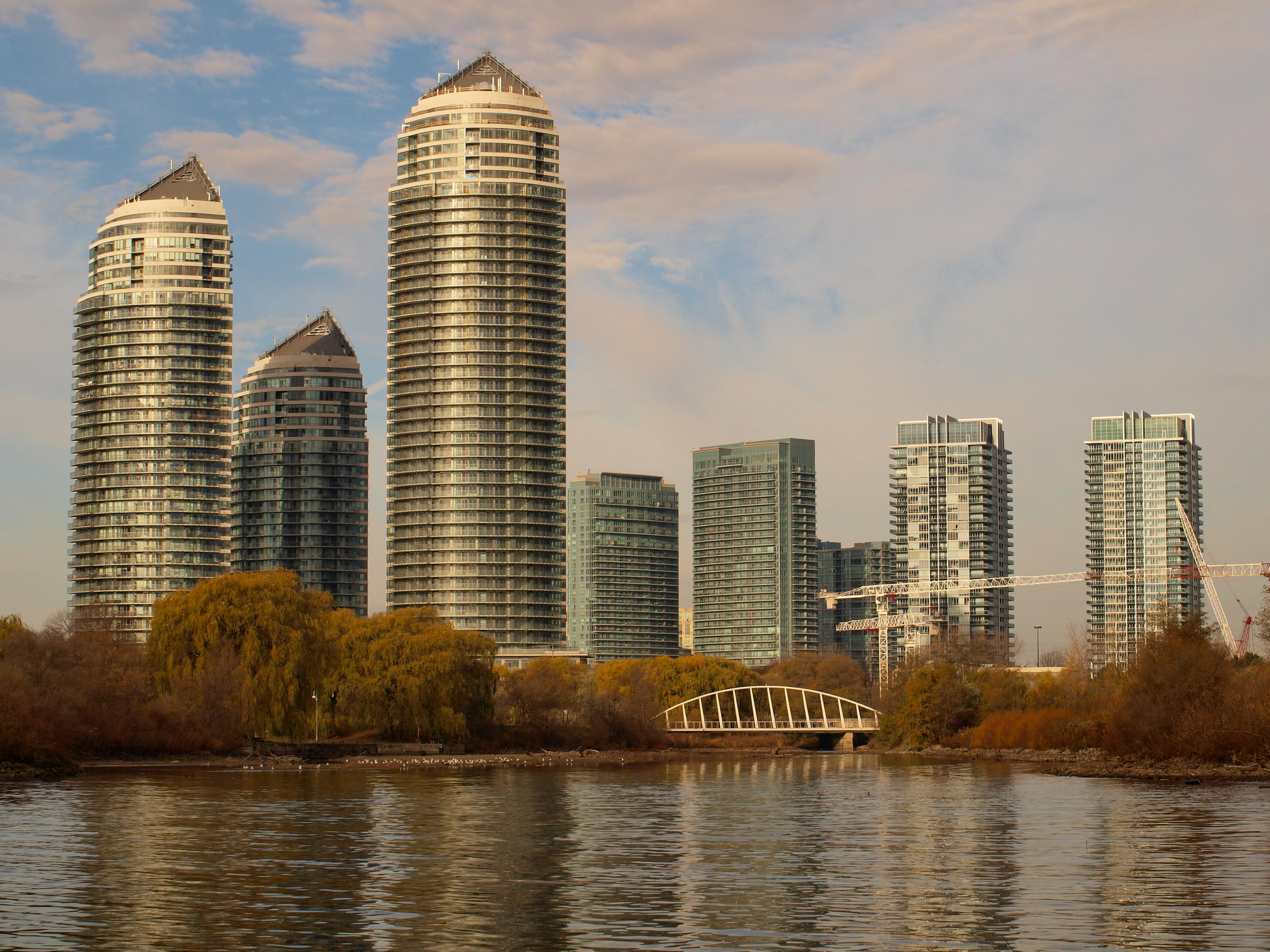 View of Humber Bay Park, and condominium towers in the distance, in Toronto, Ontario, Canada.